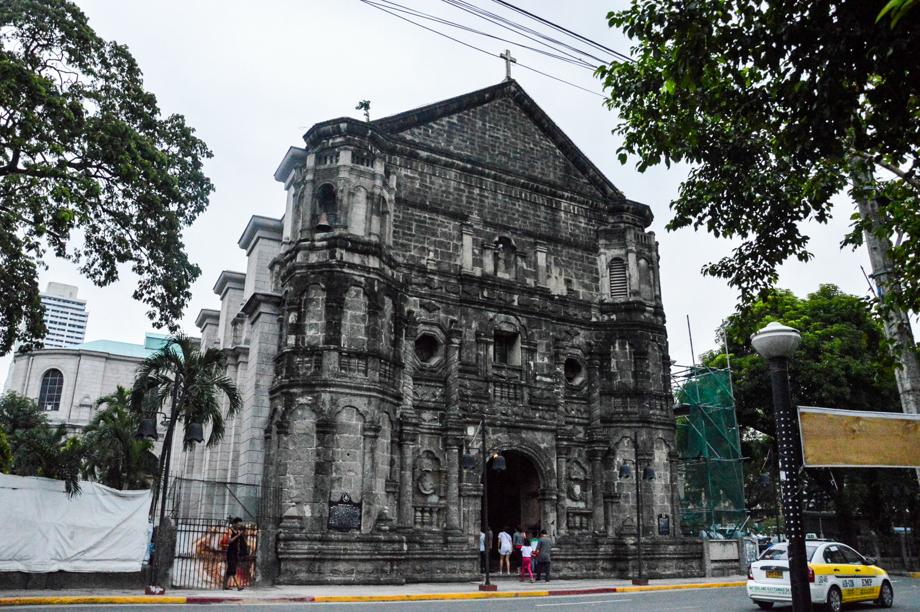 Exterior view of Malate Church